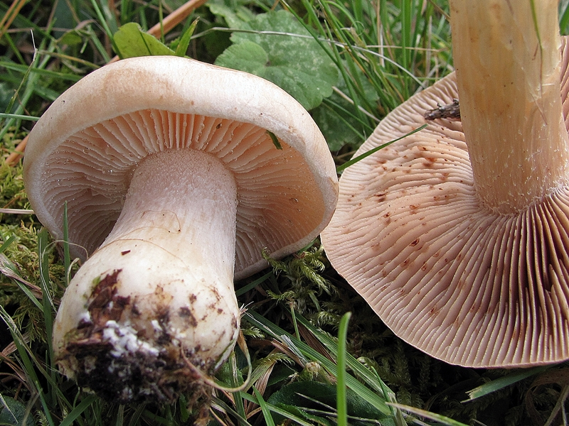 Hebeloma crustuliniforme from Oneida County, New York, USA